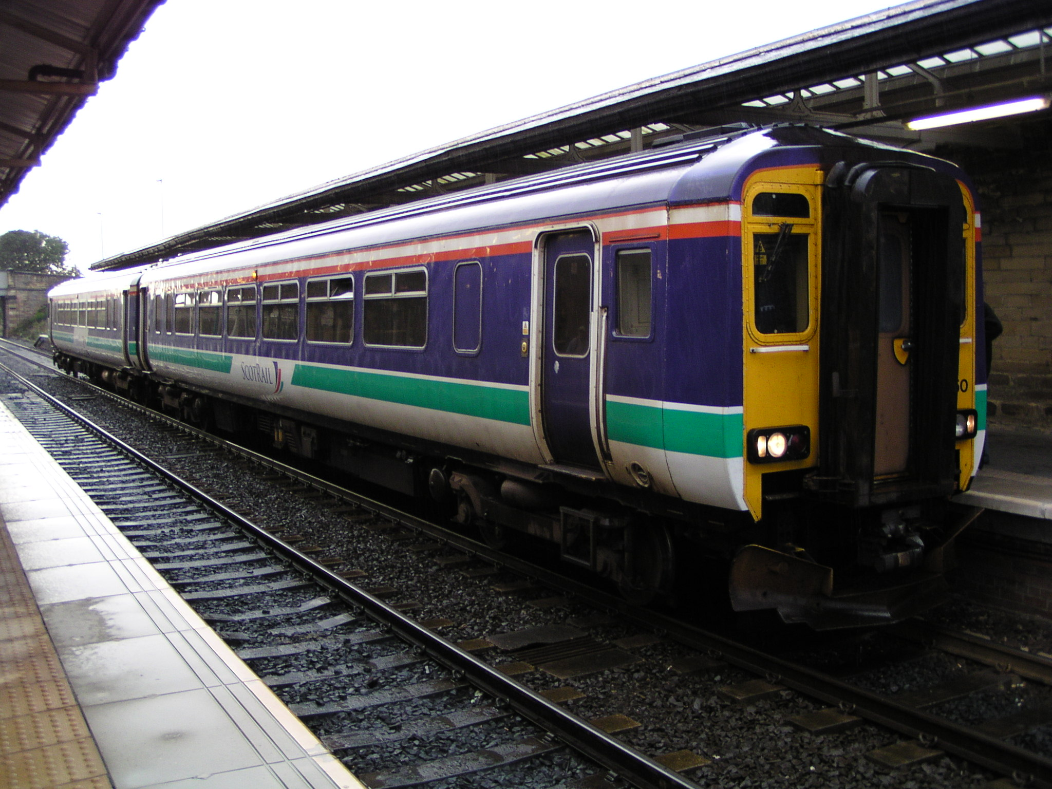 This image was copied from . The original description was: BR Class 156, no. 156450, at Hexham, on 30th October 2004.